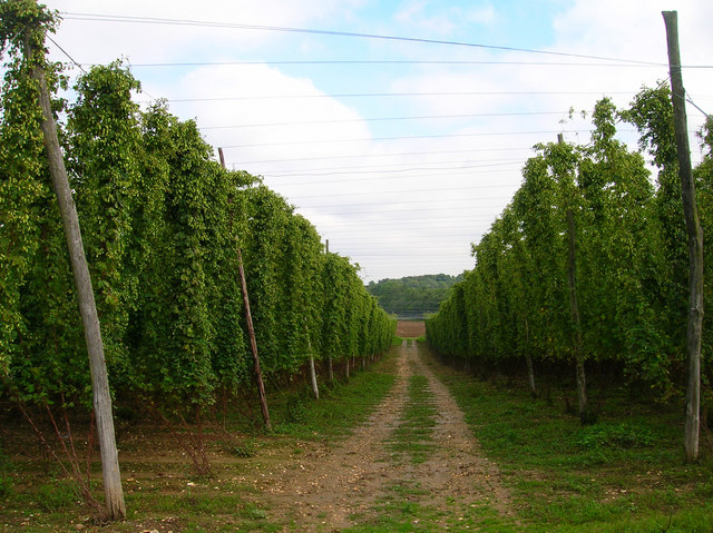 Hops near Lower Ensdean Small field between Joan Beech Wood and the railway growing hops. Taken from the bridleway.